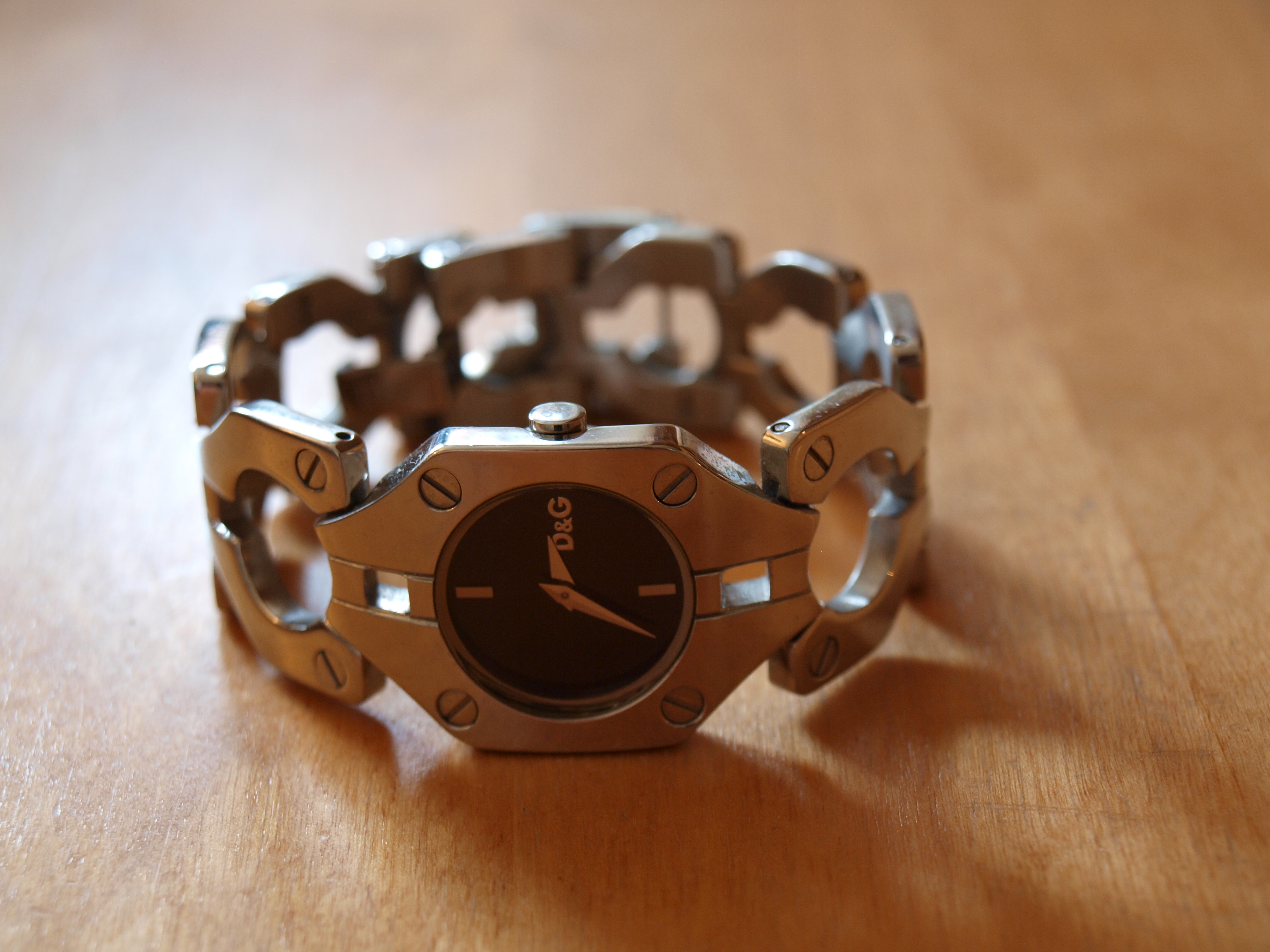 Dolce & Gabbana woman's watch.